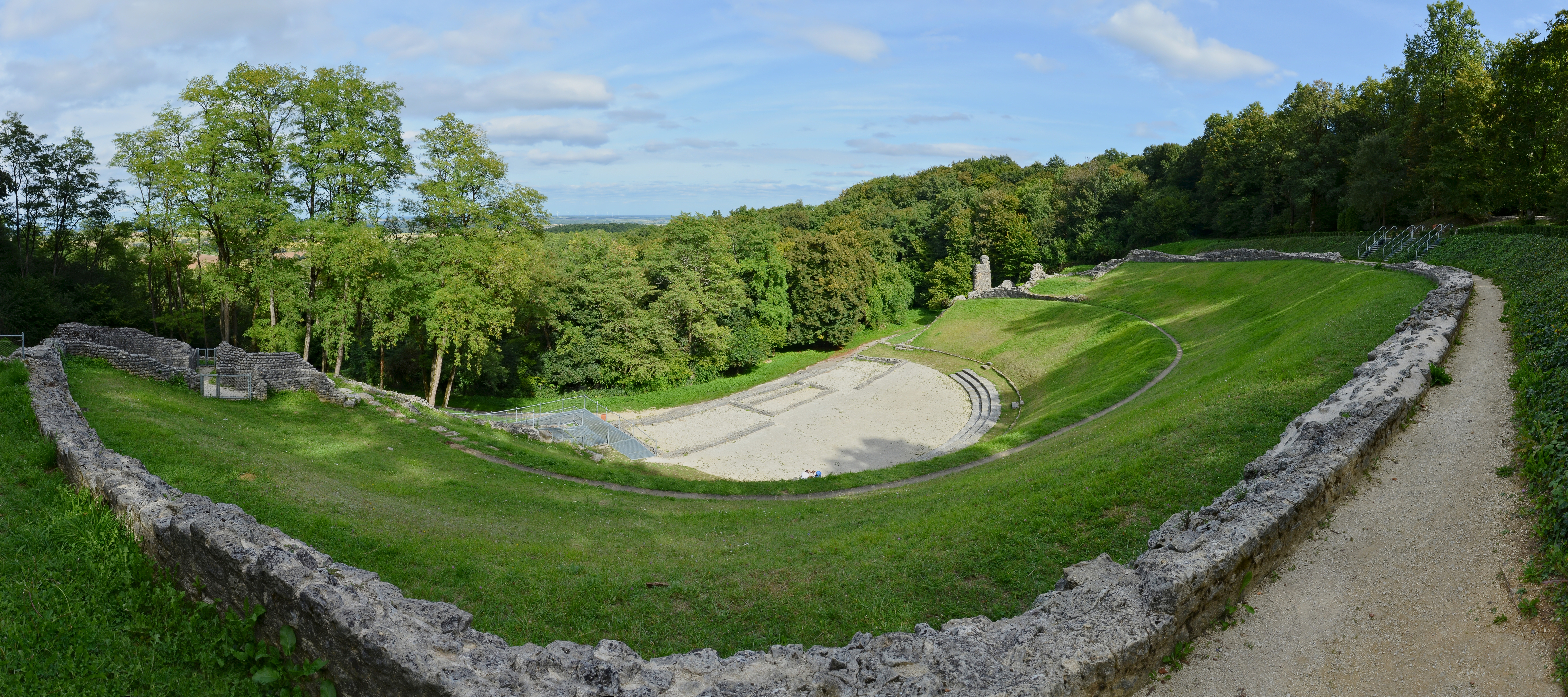 Gallo-Roman theatre of Les Bouchauds, Saint-Cybardeaux, Charente, France.